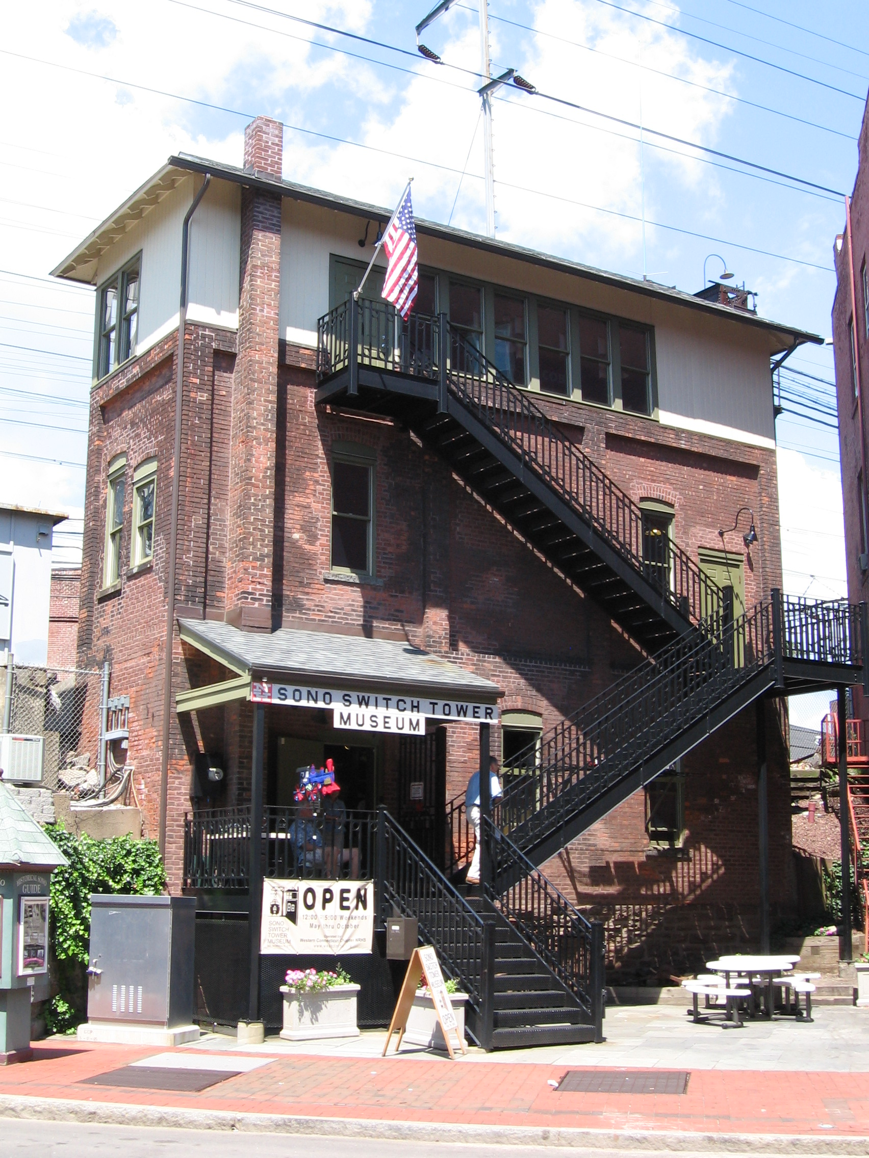 Sono Switch Tower Museum in South Norwalk, a section of Norwalk. The museum is a former switching station (interlocking tower), built in 1896, which controlled the tracks at the intersection of the New Haven Line and the Danbury Branch.